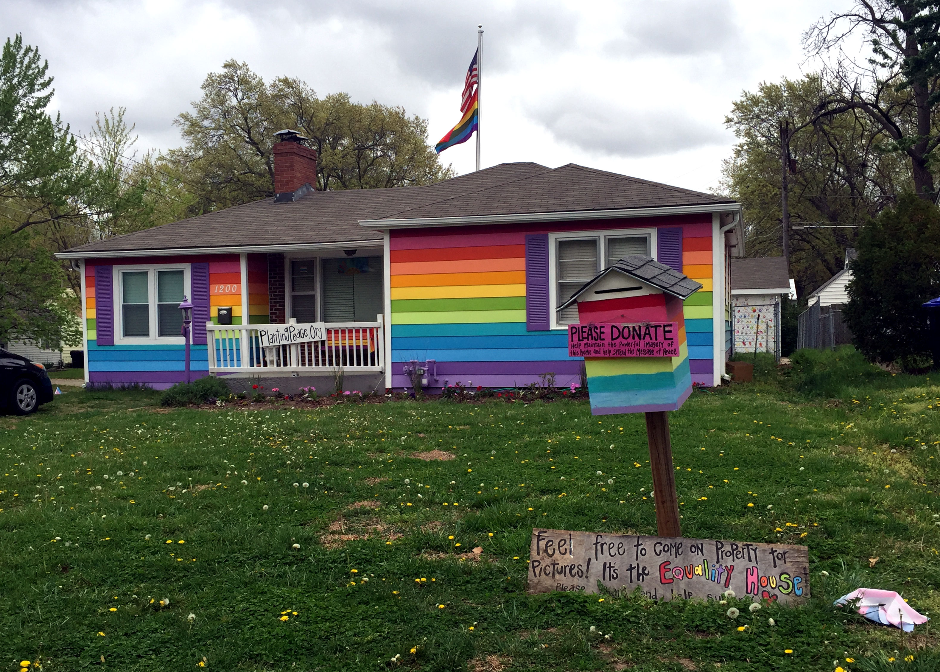 Equality House. Founded by Planting Peace nonprofit humanitarian organization. Topeka, KS. April 2016. It is across the street from Westboro Baptist Church.